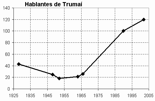 Number of trumai speakers (Source: Aikhenvald & Dixon, The Amazonian languages, 1999.